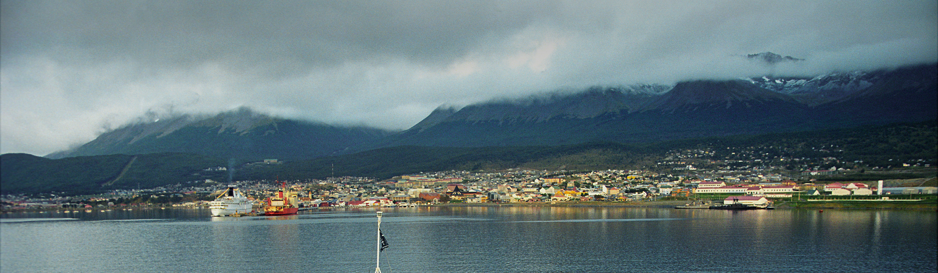 Panorama of Ushuaia, Tierra del Fuego Province (Argentina).